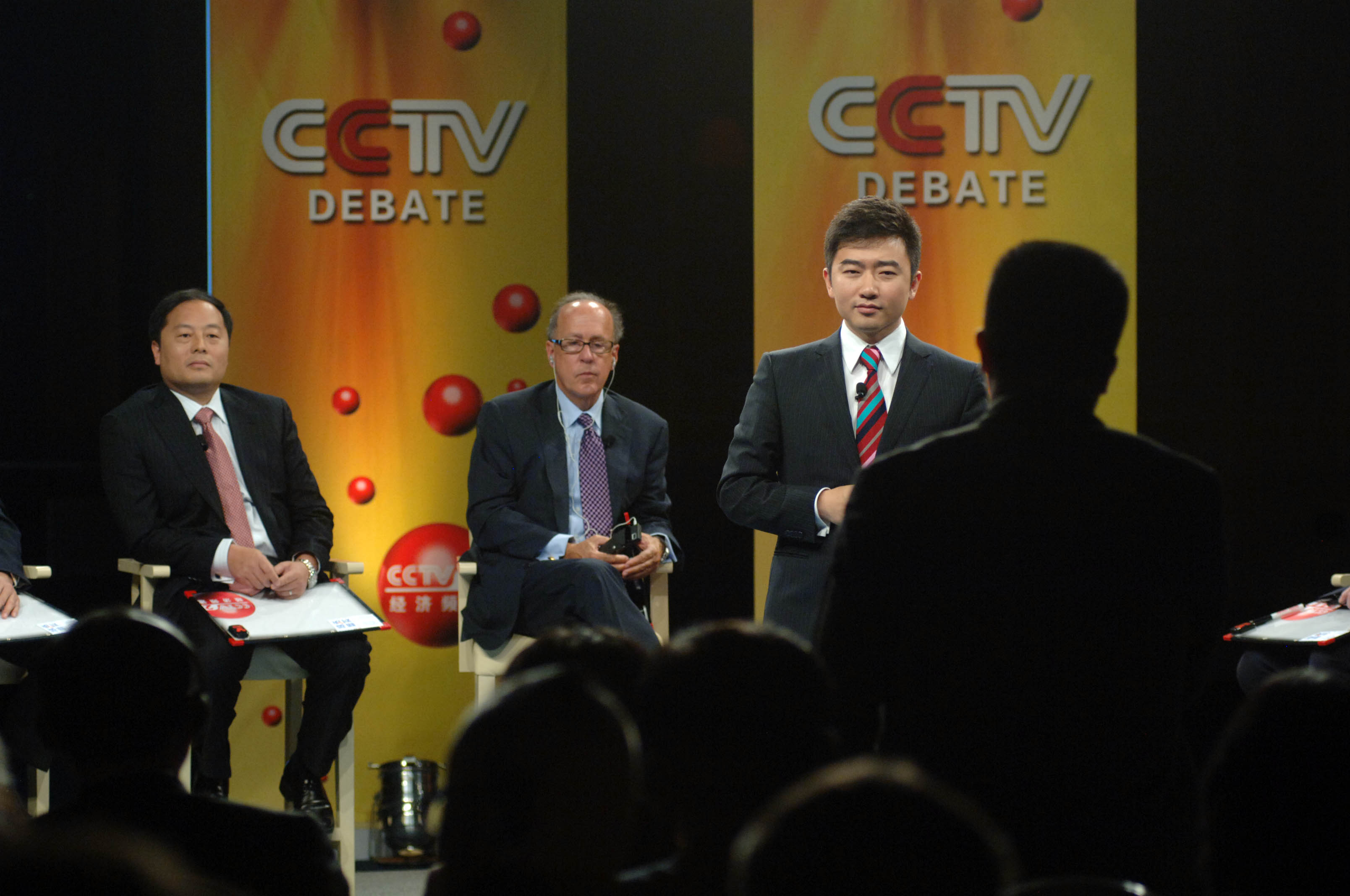 TIANJIN/CHINA, 27SEPT08 - CCTV Anchor Rui Chenggang hosts the CCTV Debate at the World Economic Forum Annual Meeting of the New Champions in Tianjin, China 27 September 2008. Copyright World Economic Forum ( by Adam Nadel